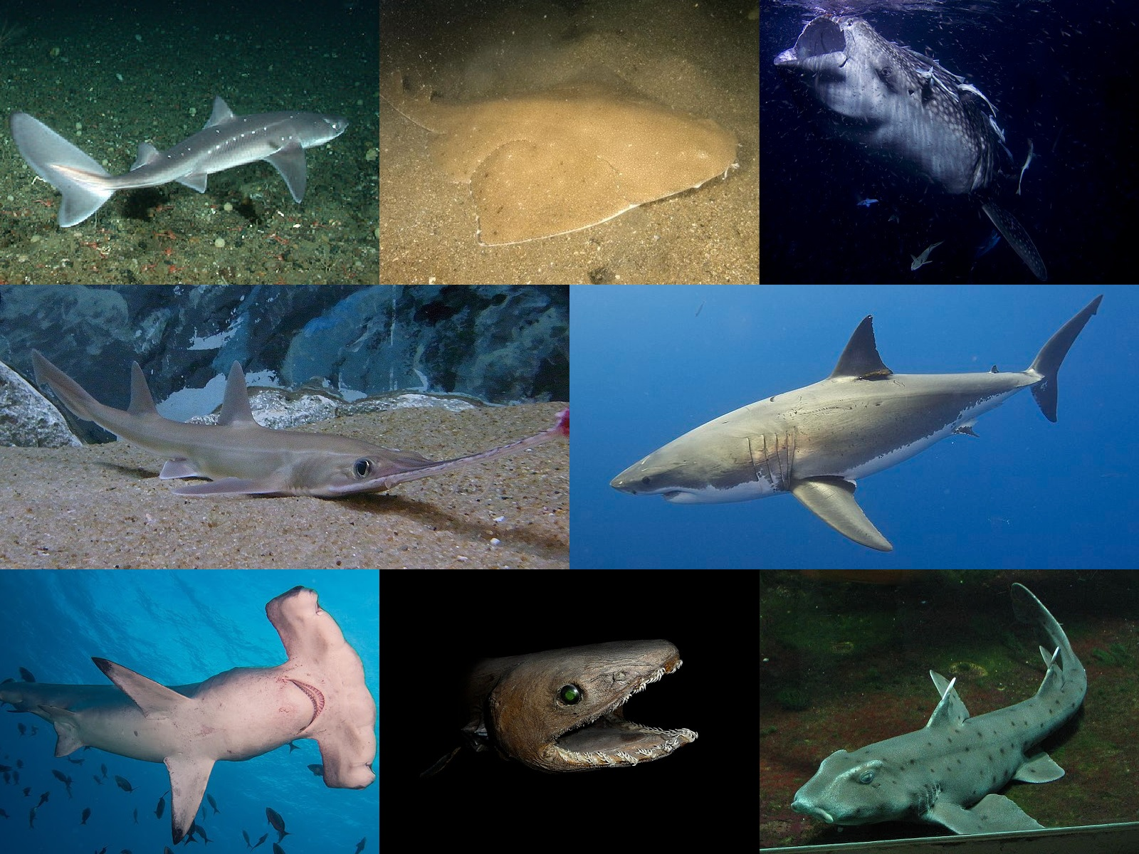 Images taken from: File:Spiny dogfish hokitika.jpg Sergi File:Pristiophorus japonicus.jpg File:Whale Shark 1 AdF.jpg Arturo de Frias Marques File:Great White Shark (14730719119).jpg Elias Levy File:Squatina australis 3.jpg Mark Norman / Museum Victoria File:Scalloped hammerhead cocos.jpg Barry Peters` File:Chlamydoselachus anguineus head.jpg Citron File:Hornhai (Heterodontus francisci).JPG Cymothoa exigua